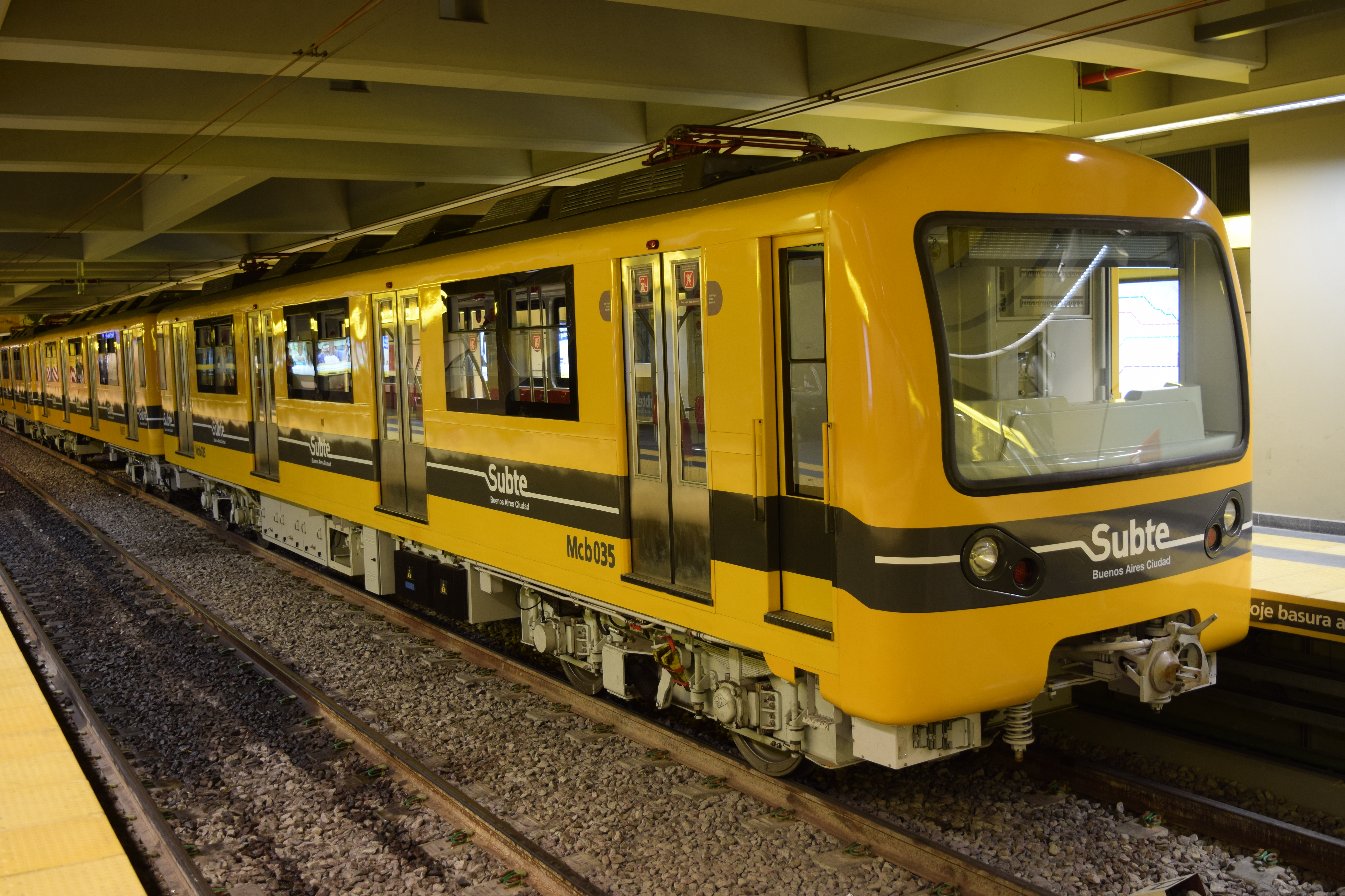 A reformed Siemens O&K train on the Buenos Aires Underground.